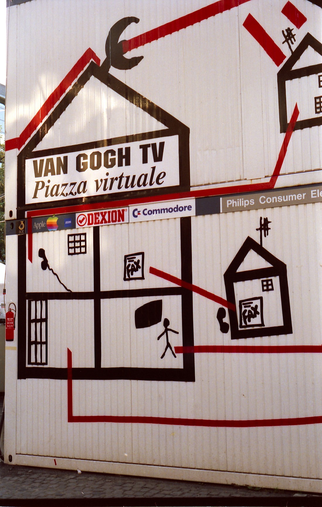 Van Gogh TV Container Logo on Documenta IX